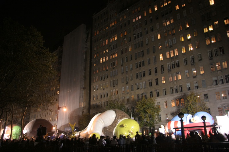 "Sleeping" Shrek. Thanksgiving Balloons Inflation Night, New York, USA, 2007